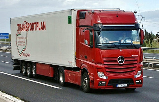 Transportplan Mercedes-Benz Actros